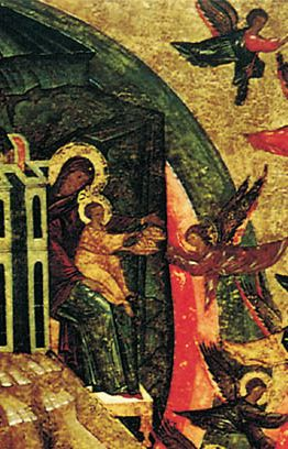 Detail of Blessed is the Host of the King of Heaven (alternatively known as Church Militant). Russian icon, ca. 1550 - 1560. Tretyakov Gallery. This icon is traditionally perceived as an allegorical representation of the conquest of the Kazan khanate.